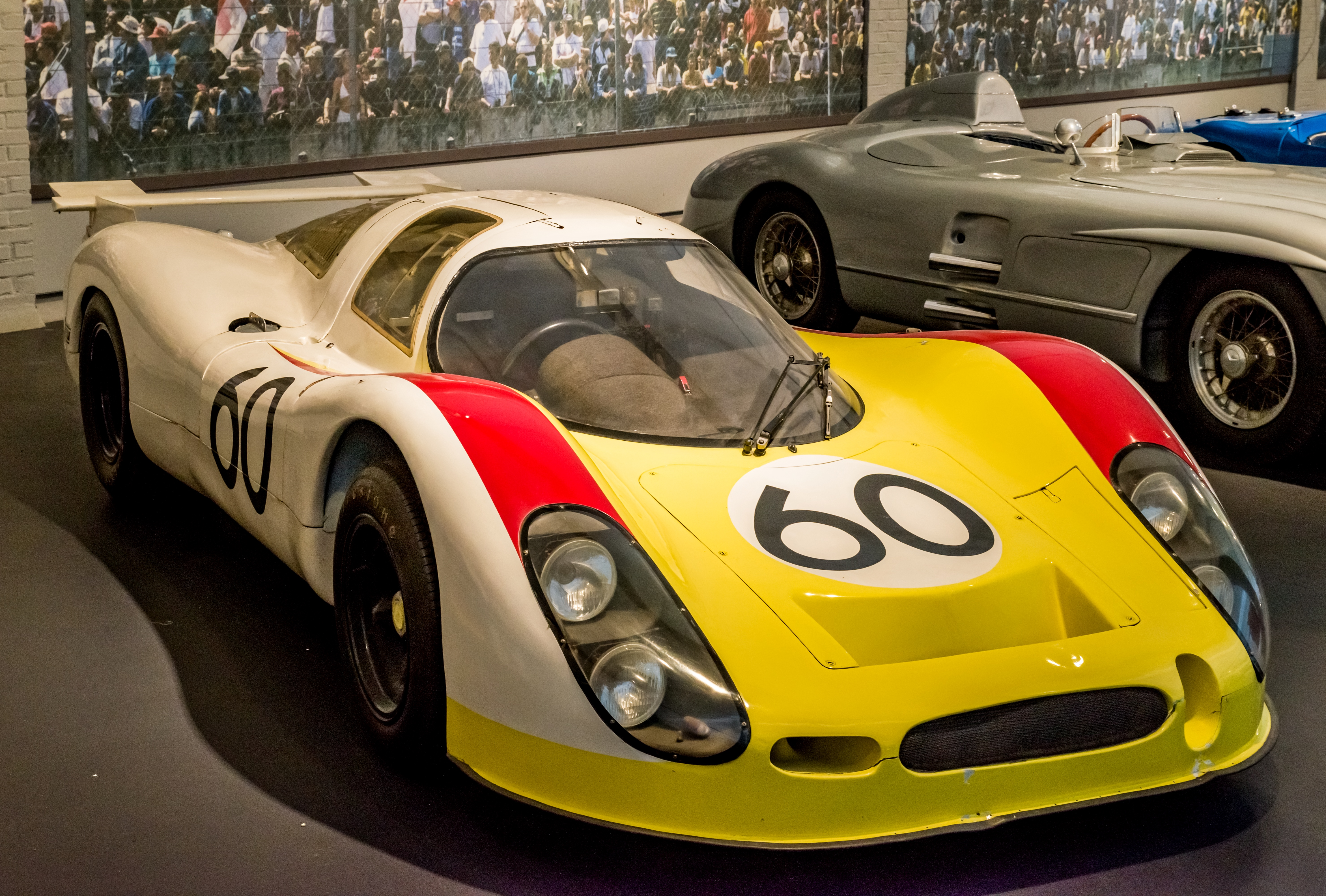 pictures from the Cité de l’Automobile – Musée National – Collection Schlump in Mulhouse, France ptictures from the 10. may 2018